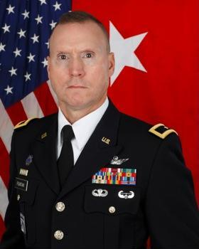 Brigadier General Fountain as acting Deputy Director of the Army National Guard